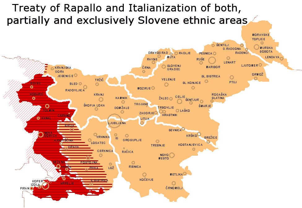 Map of Slovenian Littoral and areas of Italianization of ethnic Slovenes